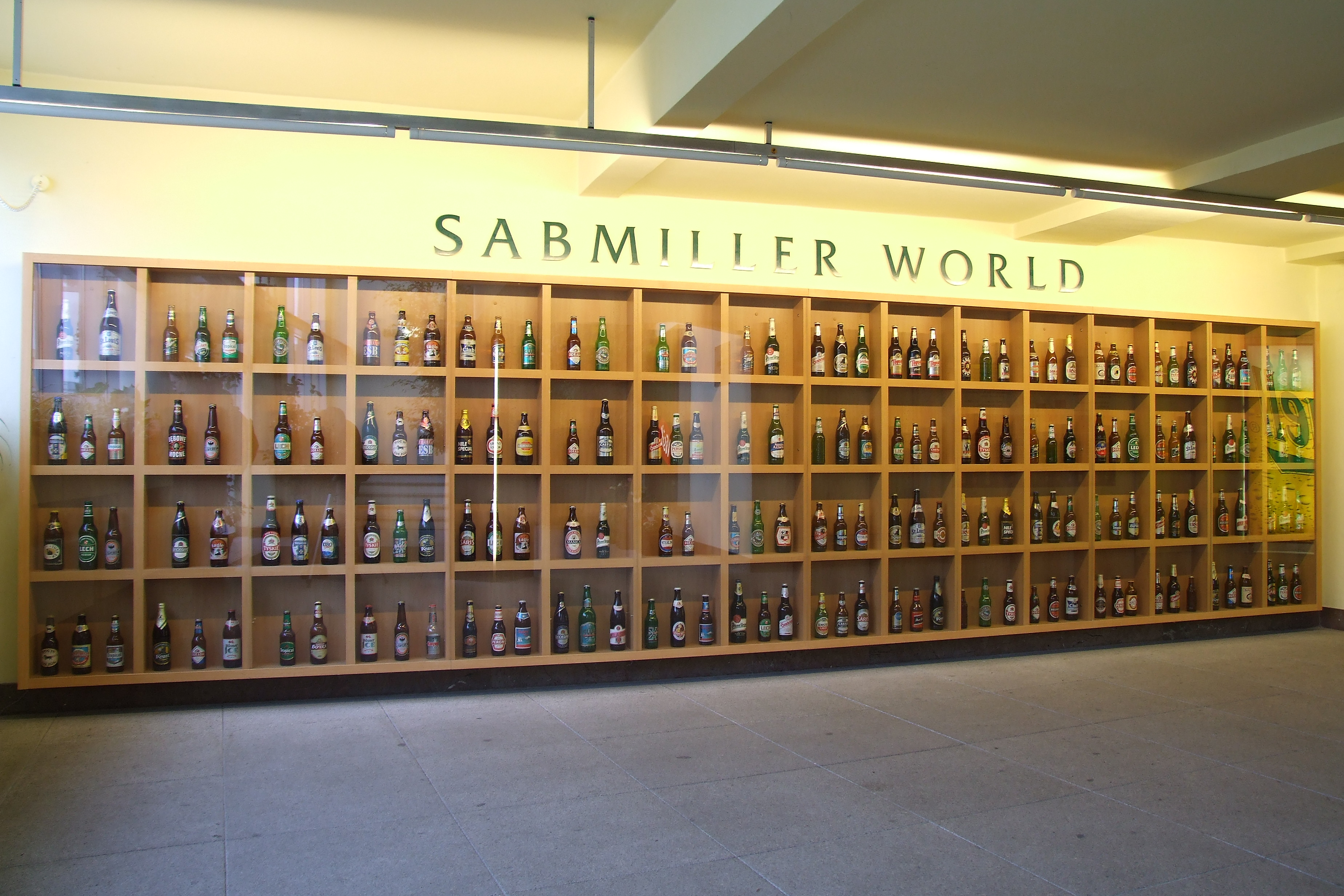 SABMiller's beers - exhibition in Brewery Plzeňský Prazdroj, Pilsen